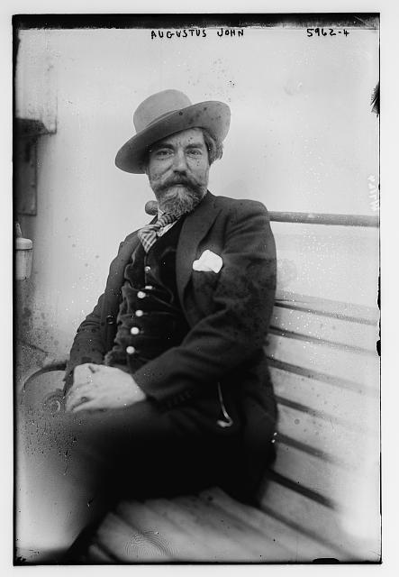 British artist Augustus John onboard a ship